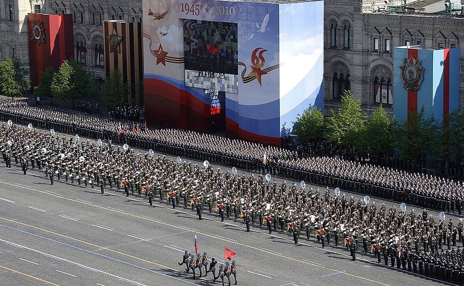 Russian Massed Bands on Red Square during a victory parade.